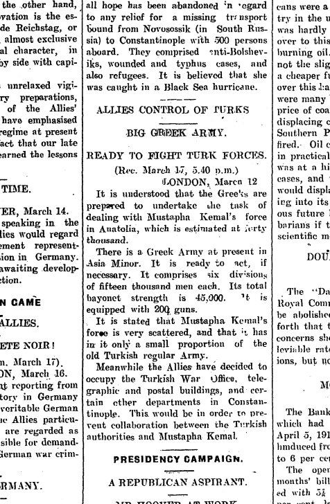 the gray river march 18 1920